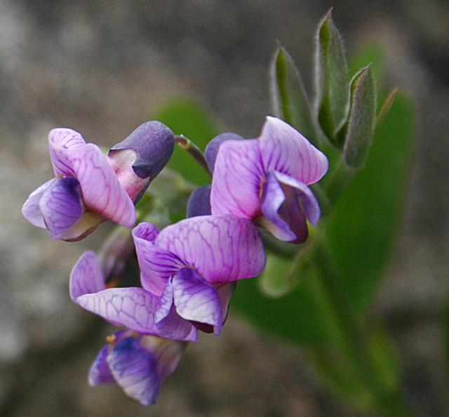 Upright Vetch (Vicia orobus)? I am not at all certain about the species here, and would welcome opinions from better qualified persons. It was growing in a cleft in the gneiss. If my identification is correct, it is also known as Wood Bitter-vetch.